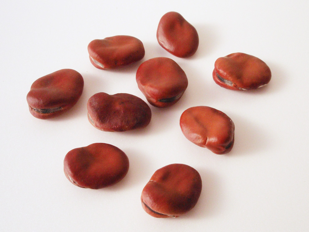 Vicia faba seeds in Japan (dry up).